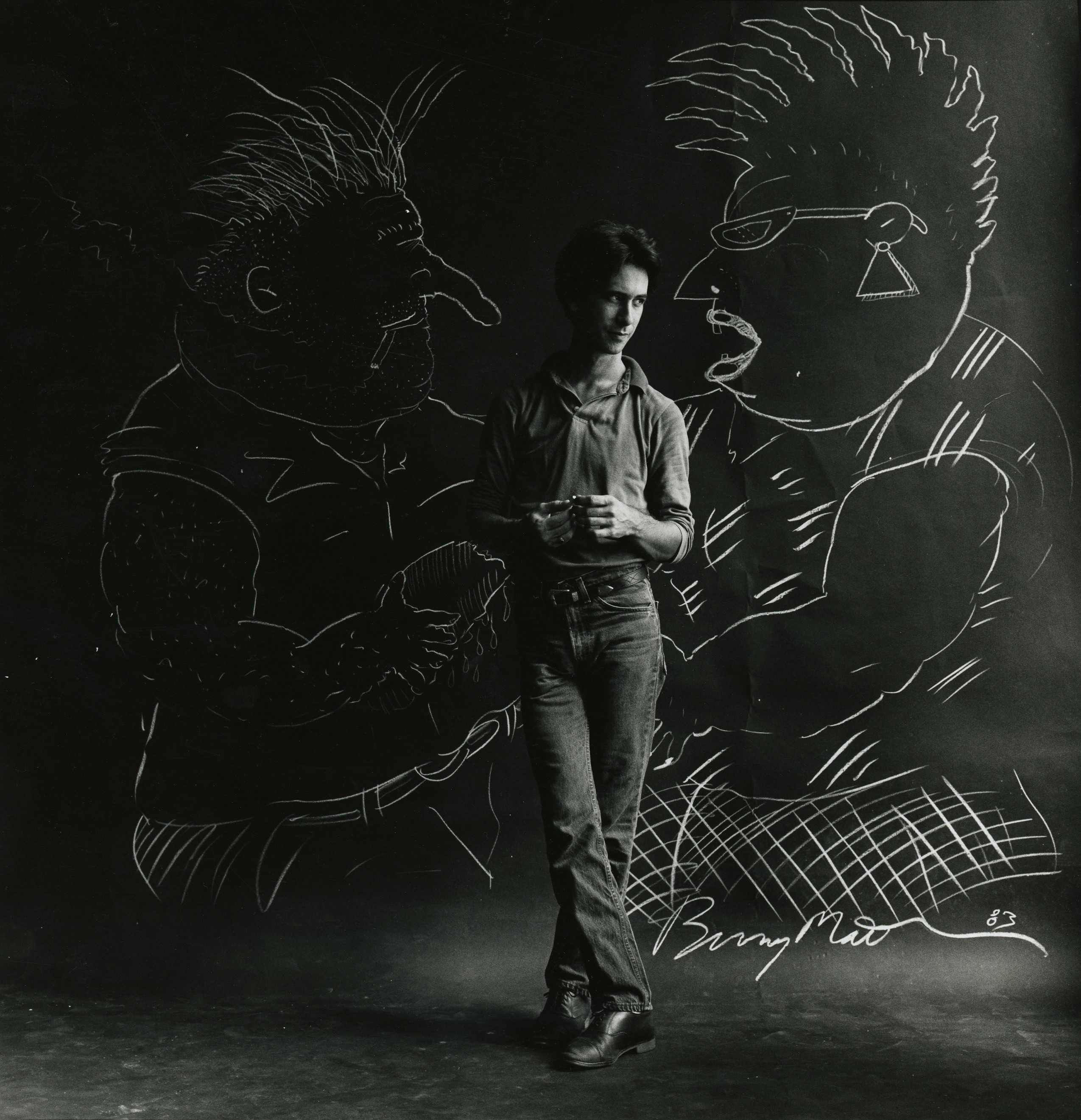 Photo of Artist Bunny Matthews by Lee Crum in 1983.